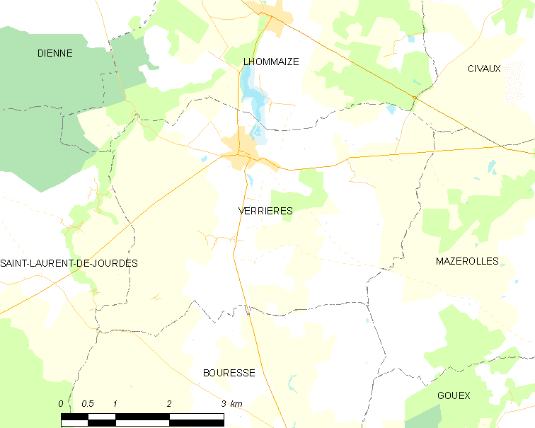 Map of French municipality Verrières